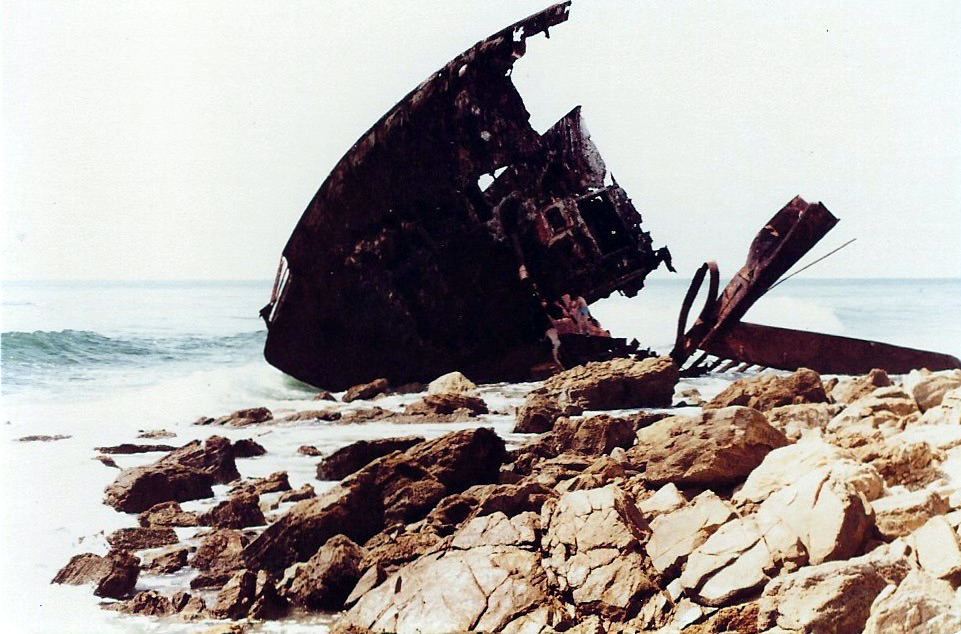 The SS Dominator wreckage offshore from Palos Verdes, California circa 1981. Notice the young guys playing around at the base of the wreckage for a scale of the size of the remains.